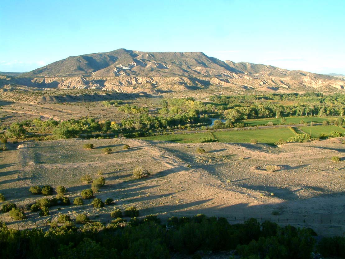 my (Einar E Kvaran) picture of the ruins at Poshuouinge, New Mexico